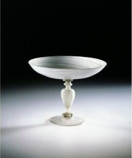 Tazza, 1550-1600 V&A Museum no. 1860-1855 Techniques - Filigree glass Artist/designer - Unknown Place - Venice Dimensions - Height 13.0 cm, Width 16.2 cm (maximum) Object Type - Tazza is the Italian word for a vessel with a shallow bowl on a foot. This tazza was a typical drinking glass for wine. It required considerable skill and sophistication to be able to drink from such a shallow glass without spilling. The use of tazze (plural for tazza) was restricted to the higher classes in society. The particular shape of this tazza was typical for the second half of the 16th and the early 17th century. Similar objects were also made in silver or silver-gilt, and were used for both wine and dry sweetmeats. Trade - The international reputation of fine glassware from Venice had reached its peak by the 16th century. Sophisticated glassware was imported at great expense. Henry VIII's inventory of 1547 includes several sorts of Venetian glass, including some in 'diaper worke', which almost certainly refers to filigree glass.